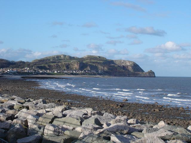 Bae Penrhyn. Penrhyn Bay on a clear December day looking towards the Little Orme